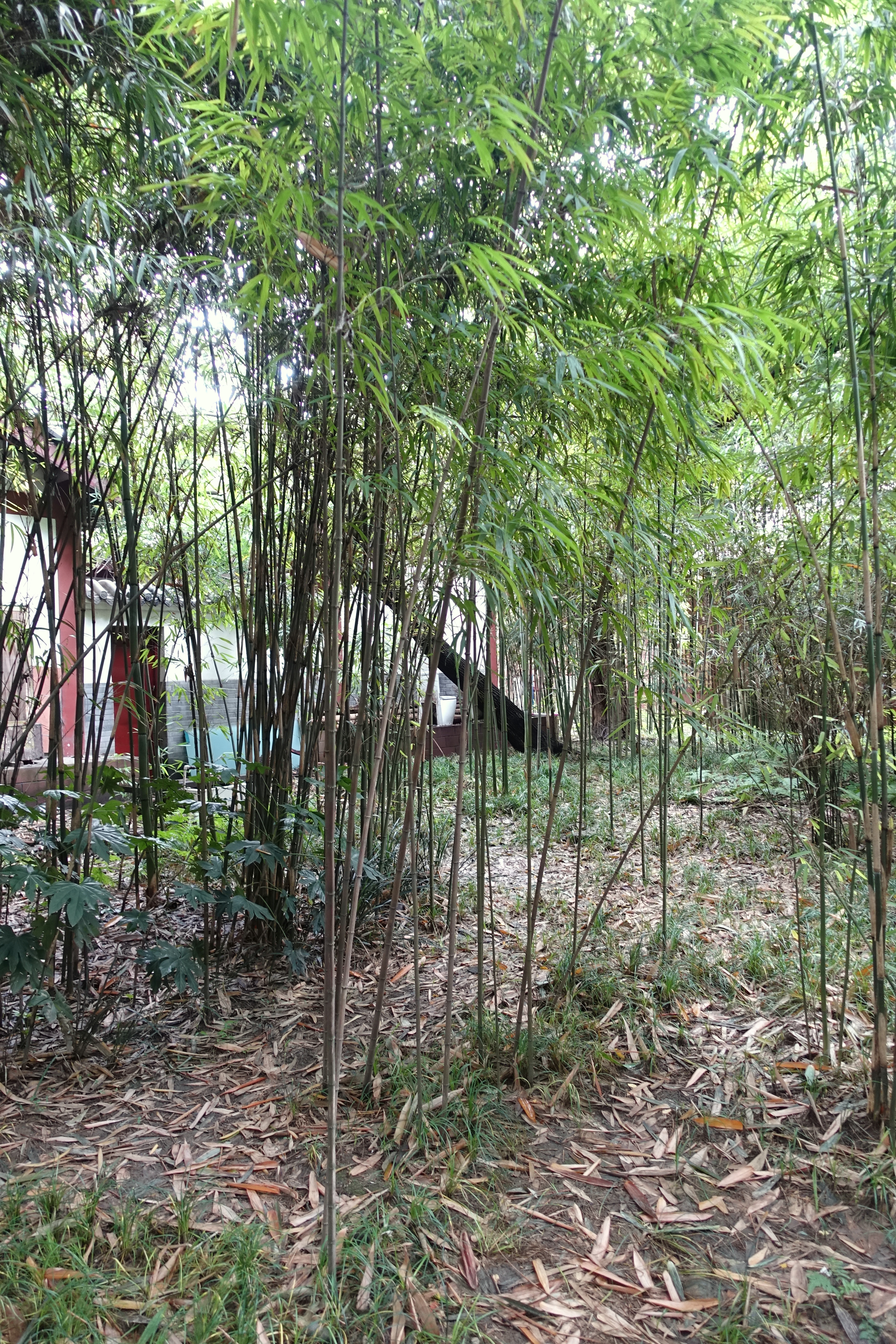 Bamboo specimen in Wangjianglou Park (望江楼公园) - Chengdu, Sichuan, China.